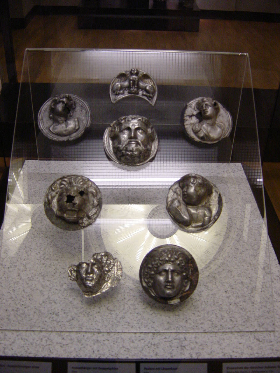 Round plates of metal, used to decorate the breast of a Roman soldier for his bravery = Medal of bravery. Examples out of the "German historical Museum" in Berlin/Germany.